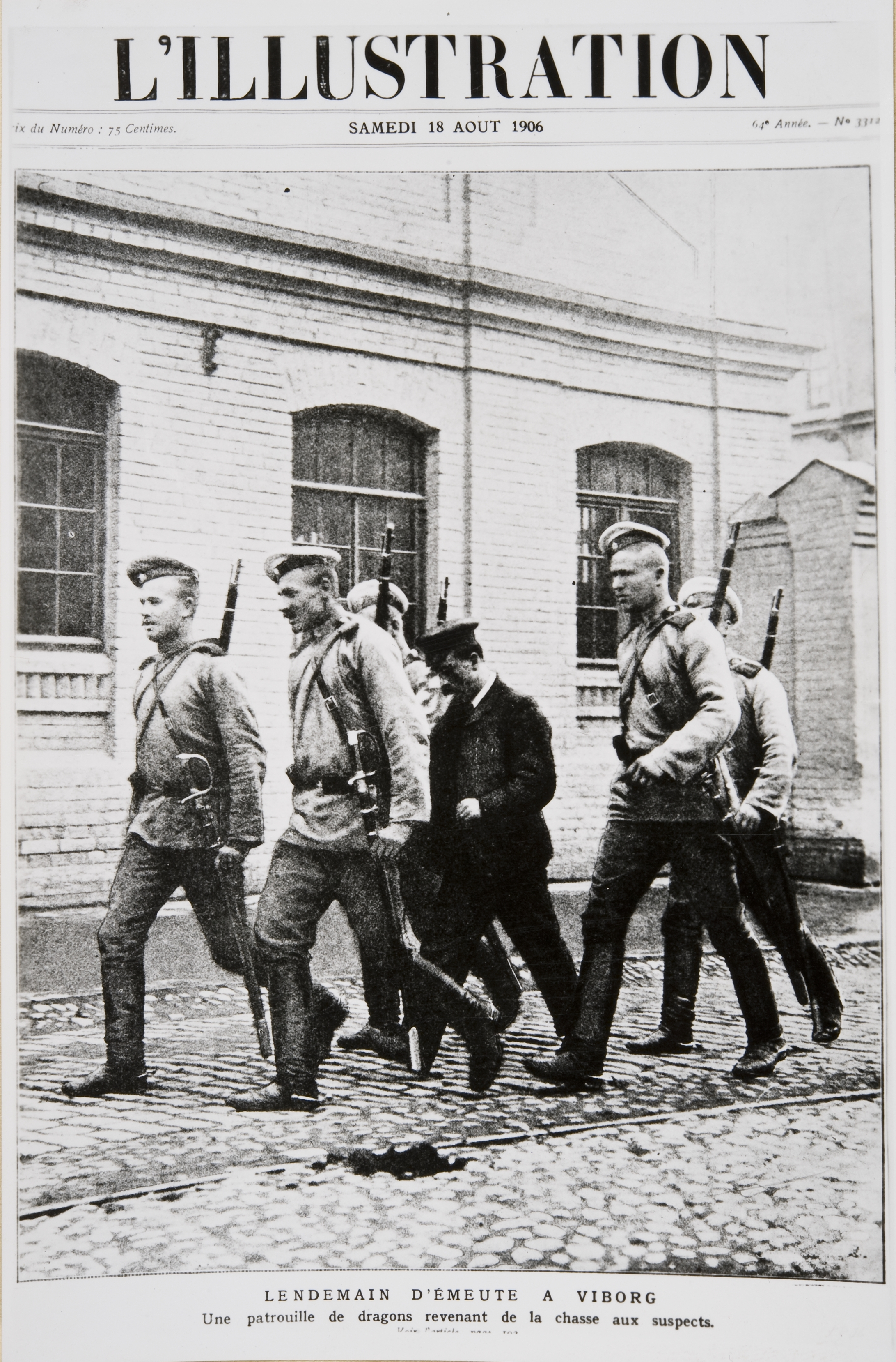 A man arrested by the Russian gendarmerie during the 1906 Sveaborg Rebellion in Helsinki, Finland.